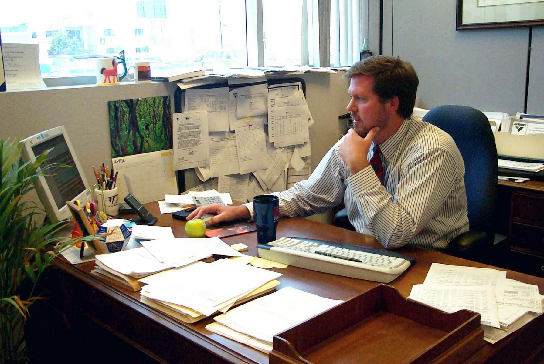 San Diego, CA (Jun. 14, 2002) -- Mr. Stephen C. Dunn, Deputy Comptroller for the U.S. Navy's Space and Naval Warfare Systems Command (SPAWAR), recently received the prestigious "William A. Jump Meritorious Award for Excellence in Public Administration.” U.S. Navy photo by Corinna Duron. (RELEASED)